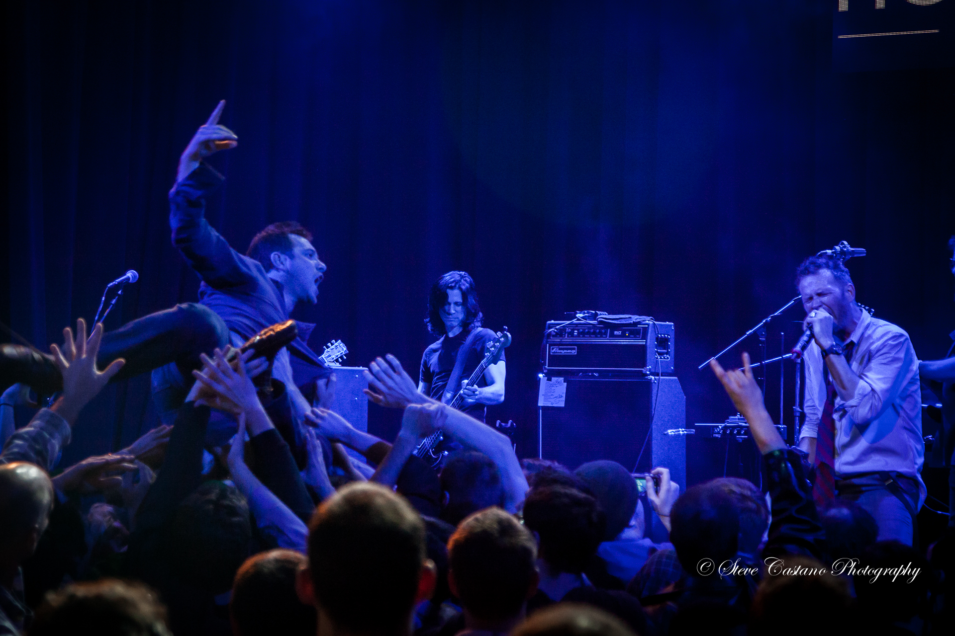 This photo was taken by Steve Castano of Steve Castano Photography at The Howard Theater in Washington, DC on March 11th, 2013 during a performance by Scott Weiland & The Wildabouts as part of the Purple At The Core Tour.